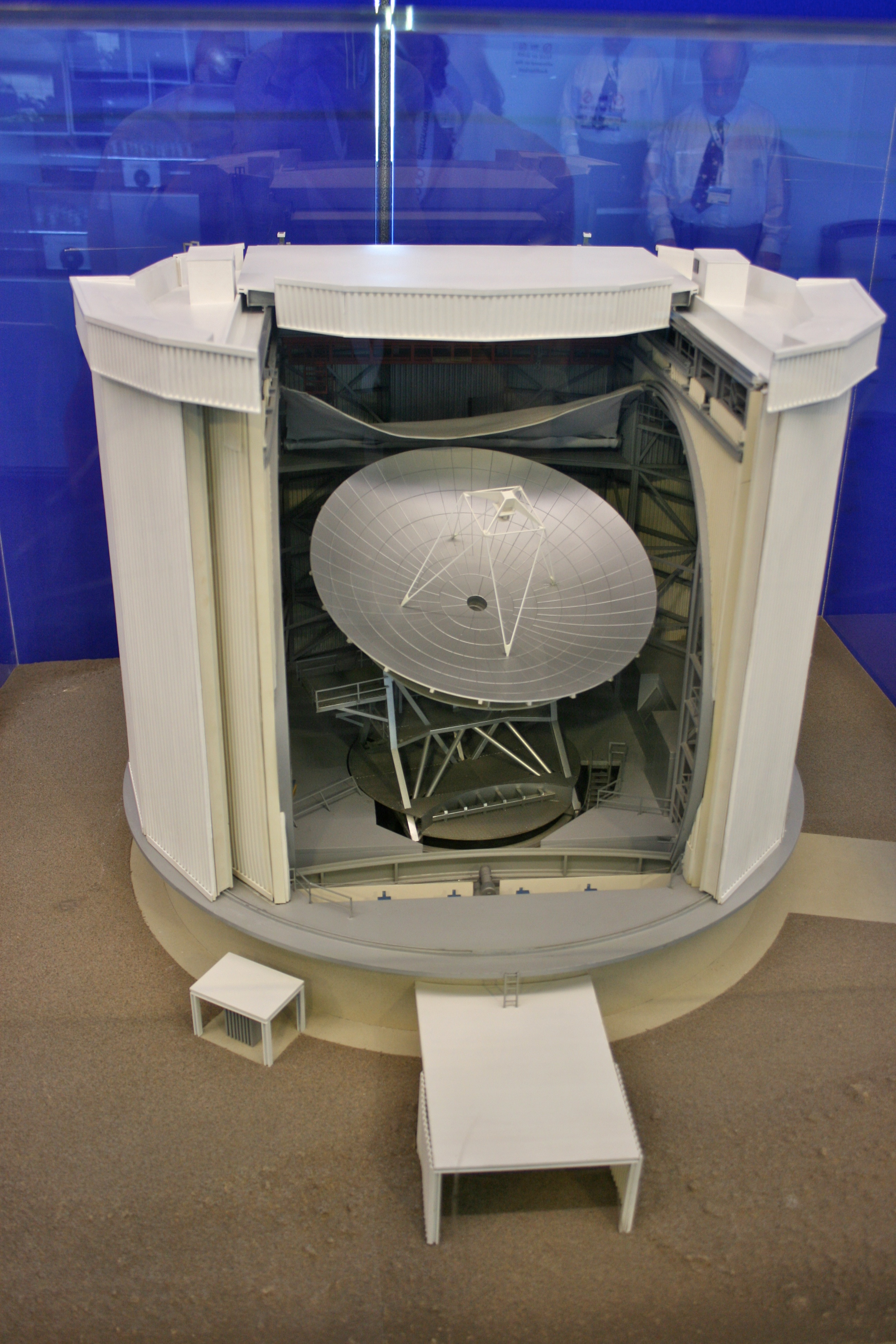 Model of James Clerk Maxwell Telescope (JCMT). Photographed at the Royal Astronomical Society's National Annual Meeting 2009.